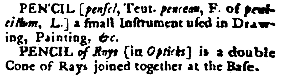 Image of definition of "pencil", including in "Opticks", from 1675 dictionary, from Google books.